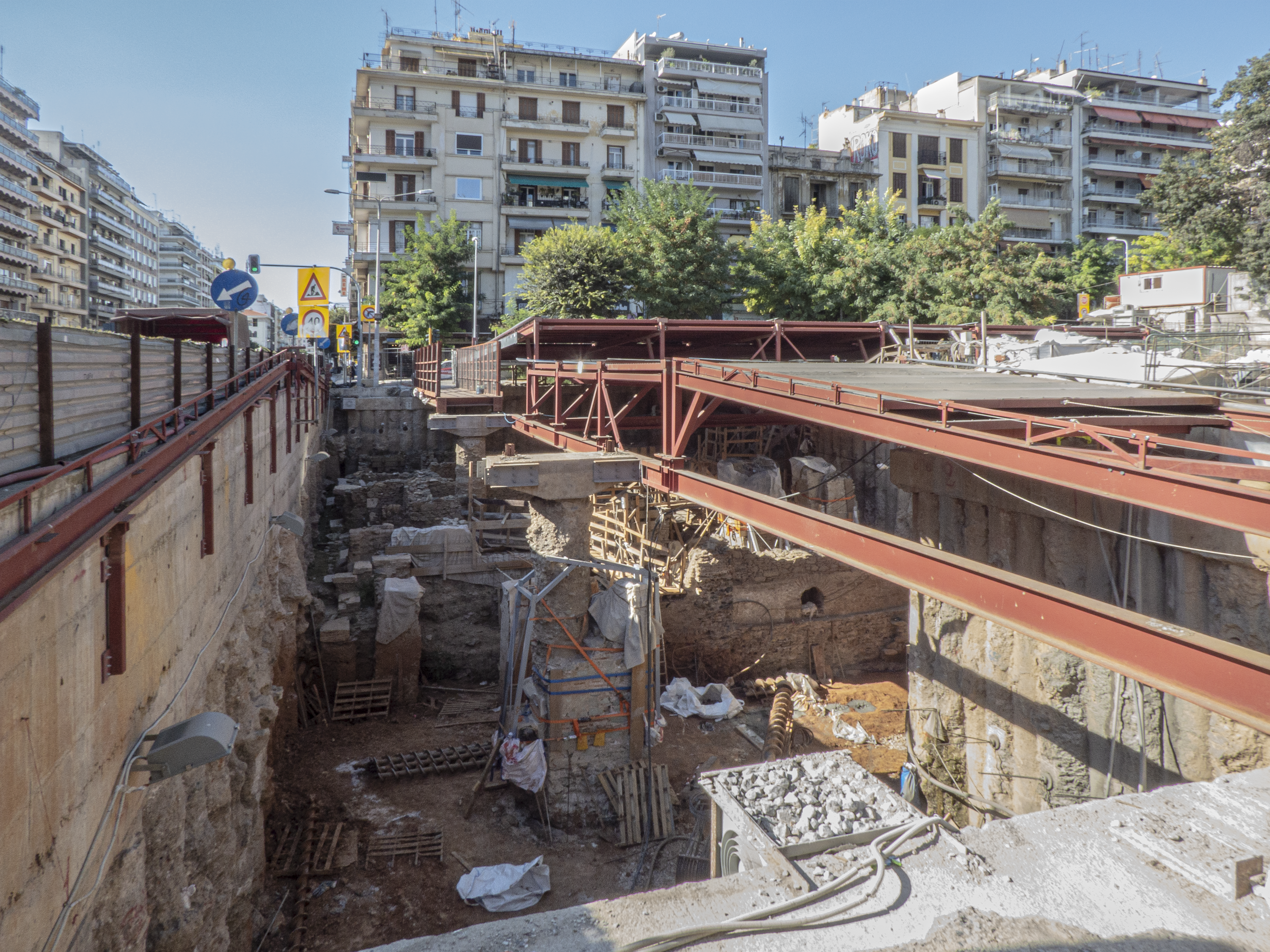 Excavations at Aghia Sofia station, Thessaloniki, as part of the construction of the Thessaloniki Metro.